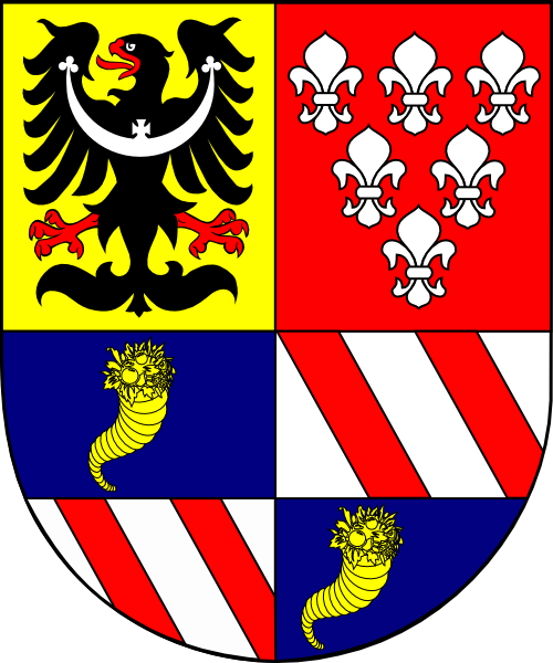 Coat of arms (shield only) of Martin von Gertsmann, bishop of Wrocław, Poland (1574 - 1585). Based on his gravestone, see here